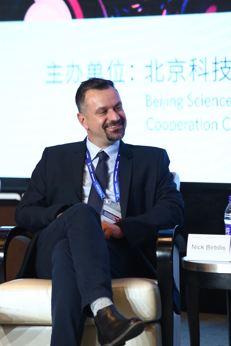 Professor Nick Birbilis at the Nature round table in Beijing, 2018